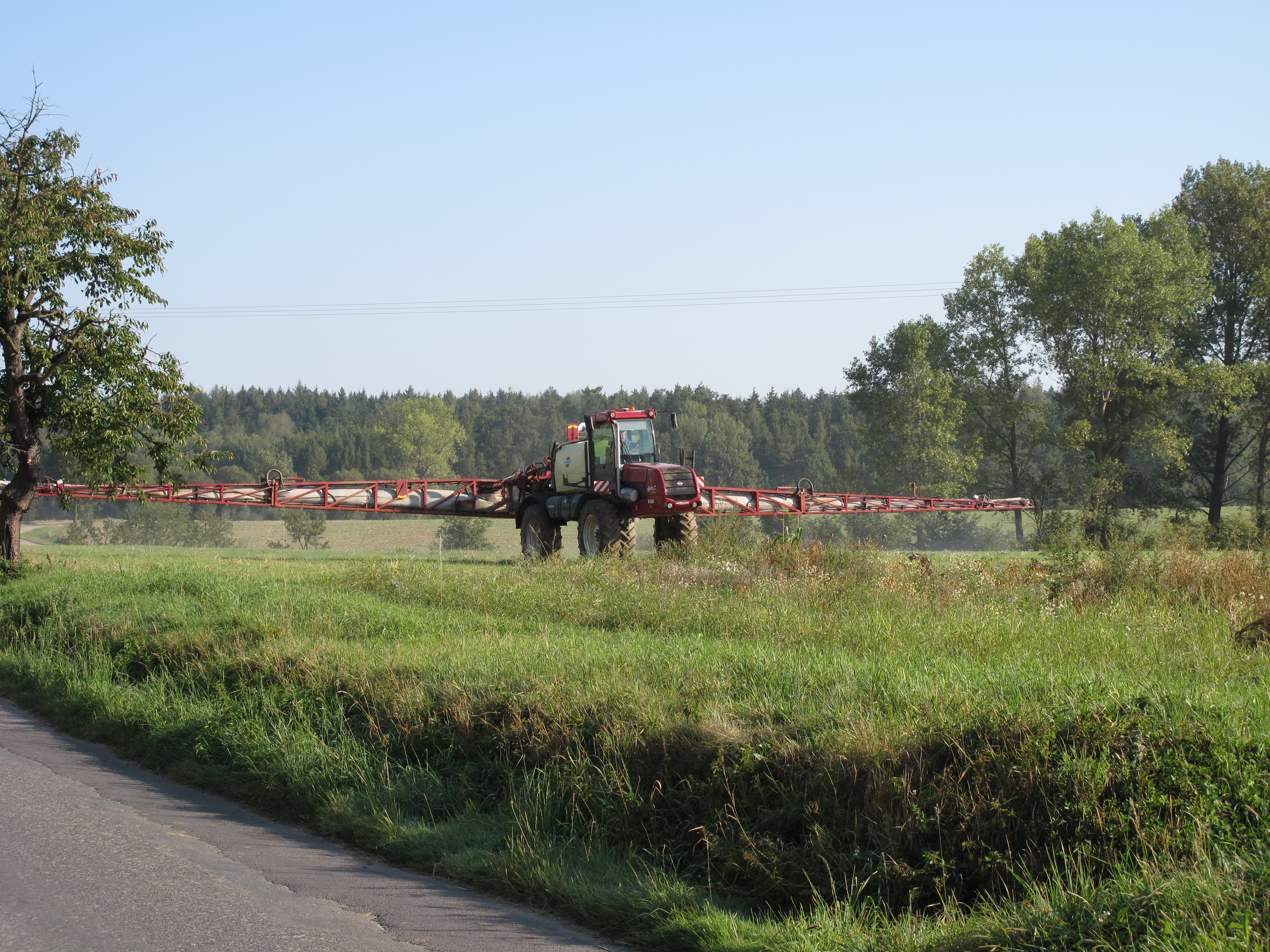 Hardi Alpha plus 4100 i self-propelled field sprayer on a field in Vojníkov village, Písek District, Czech Republic.